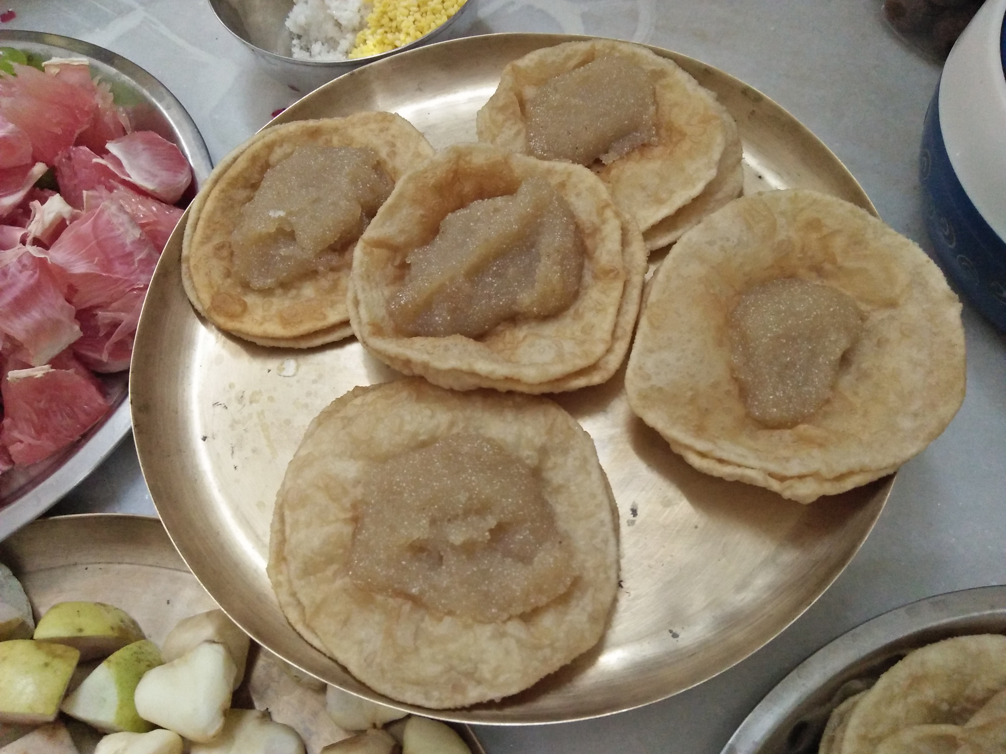 This photograph was taken during the Kojagari Lakshmi Puja (কোজাগরী লক্ষ্মী পূজা)at Howrah by a Bengali Brahman Family in West Bengal.